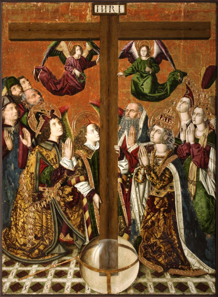 Altarpiece of the Holy Cross (Retablo de la Santa Cruz); Church of Blesa, Aragon, Spain. This panel shows Saint Helena and, anachronistically, Byzantine Emperor Heraclius in adoration of the True Cross. Helena wears a trigregnum, symbolizing that she represents the Catholic Church in her veneration of the Cross. Spanish-gothic style; oil on wood, c.1481-1487.